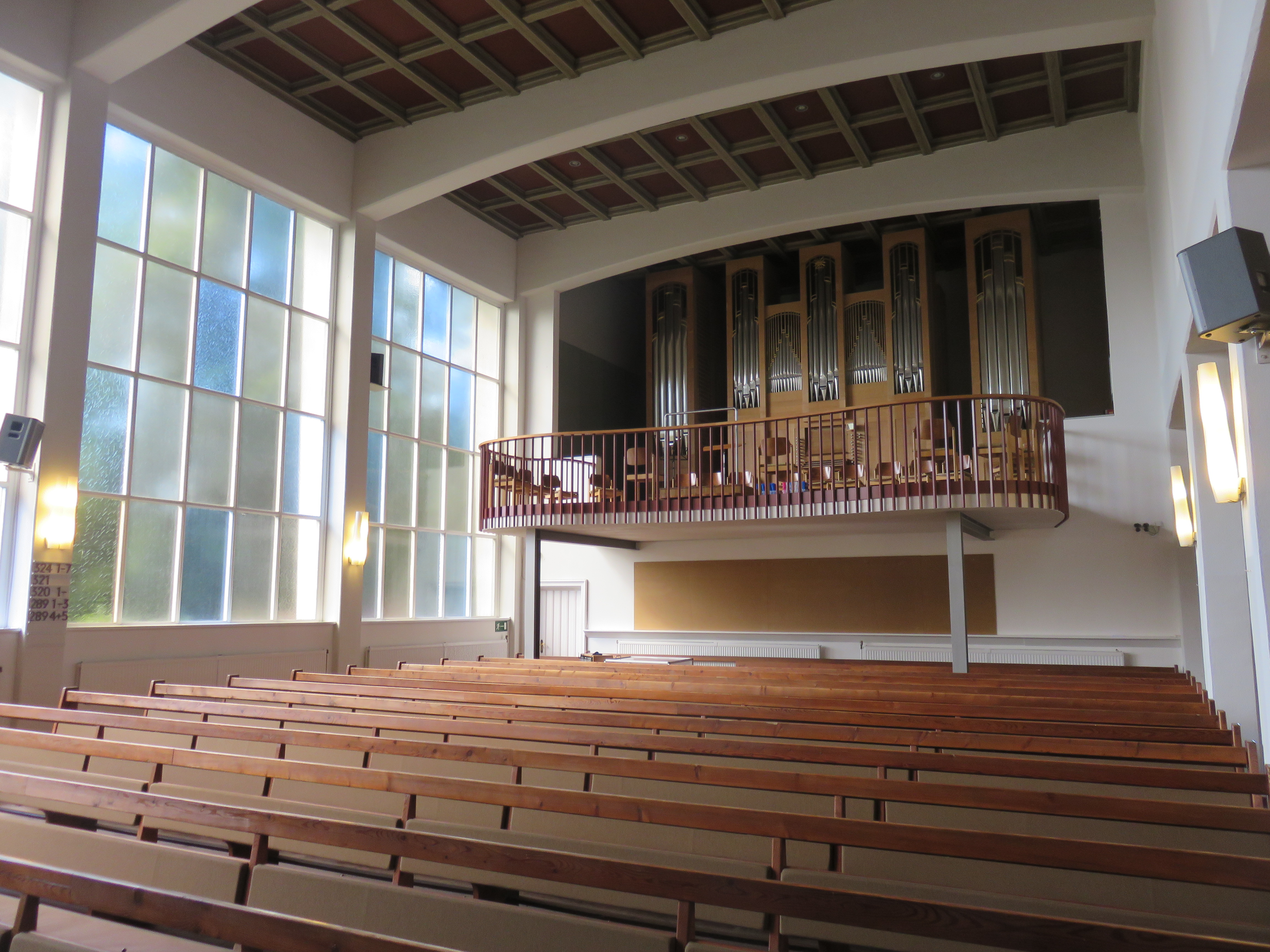 Marktkirche Poppenbüttel